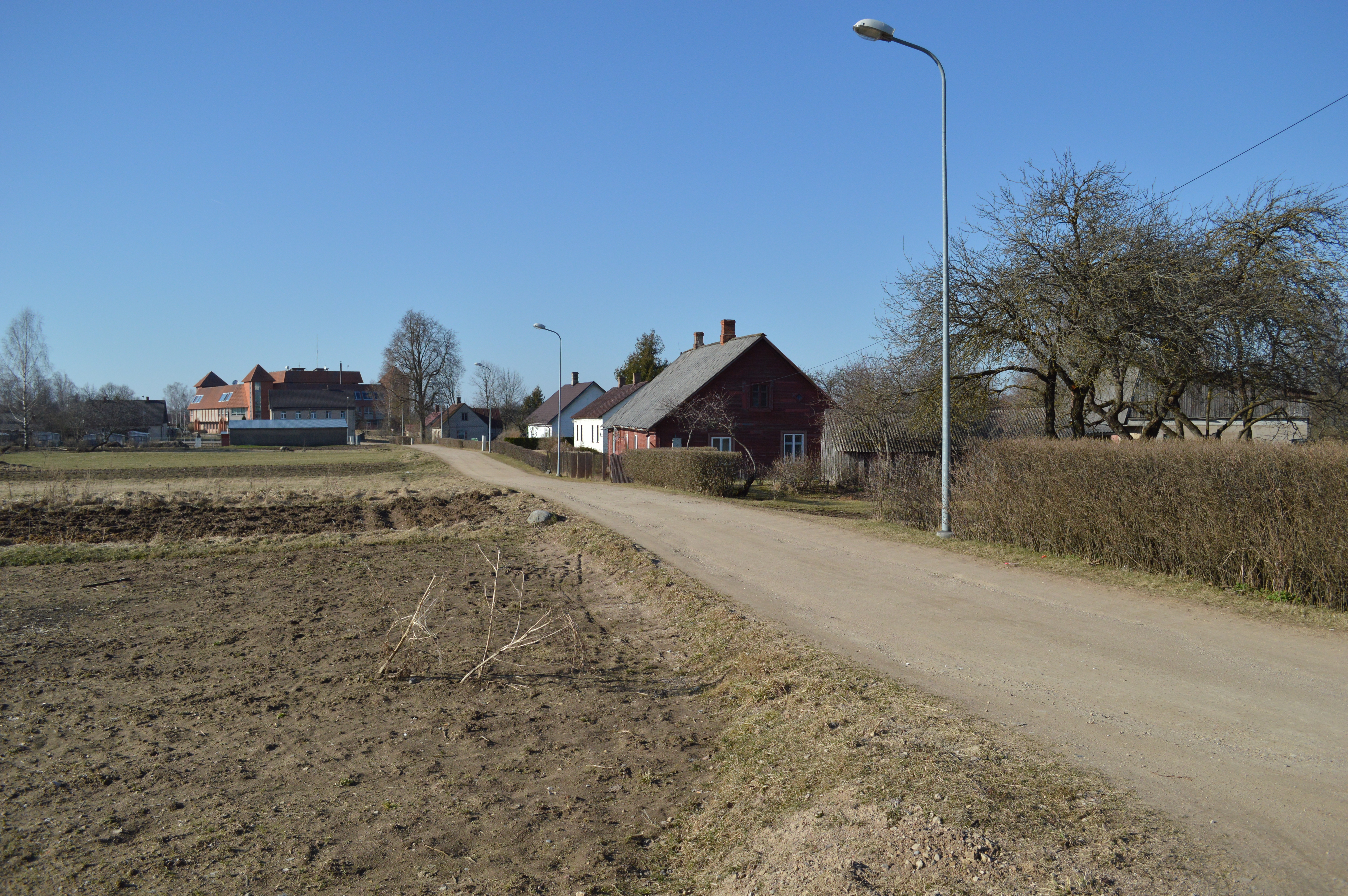 Ērgļu street, Viesīte town.